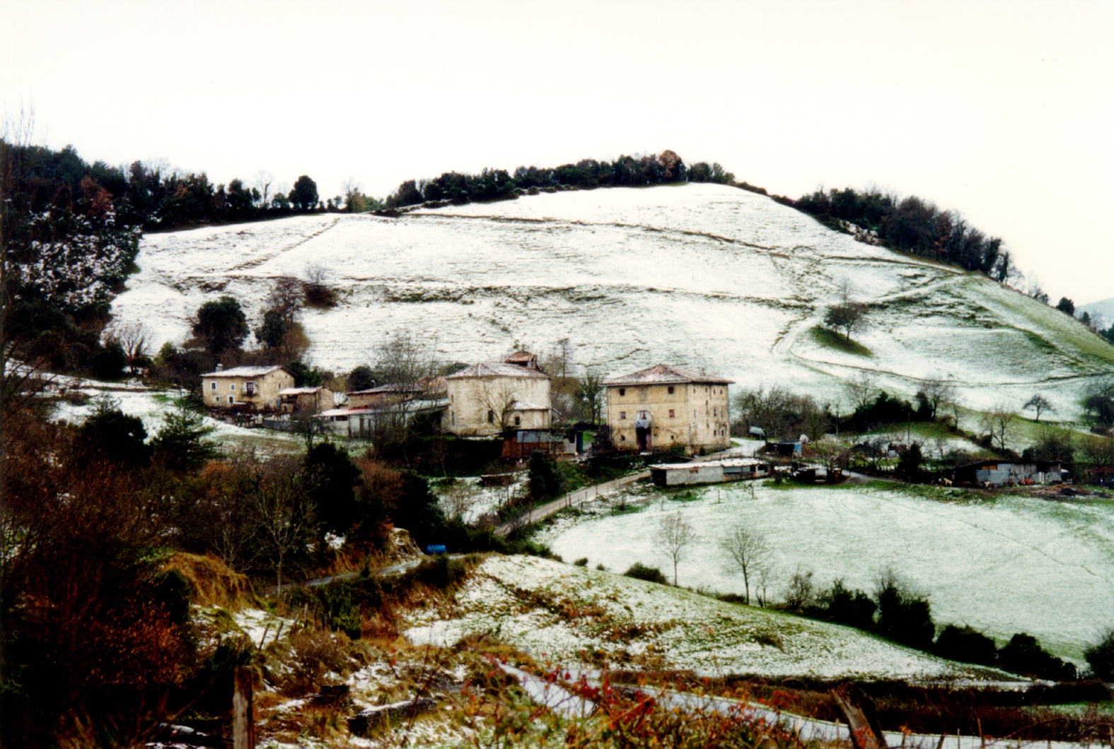 Santa Coloma (Arceniega, Álava, España). The second building from the right is the Capell of Santa Coloma (Santa Columba, Saint Columba, Sancta Columba). The first building has in its front the Coats of Arms of the Salazar family (Santa Coloma Salazar).